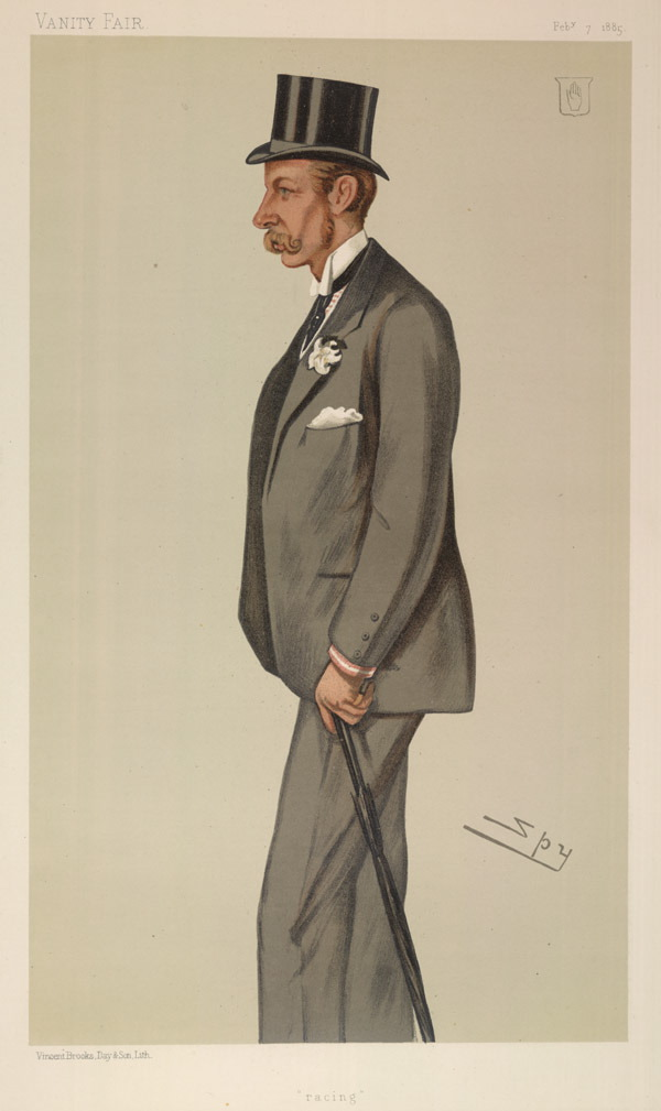 Men of the Day No.0325: Caricature of Sir George Chetwynd Bt (1849-1917) [1]. Author of "Racing reminiscences and experiences of the turf". Caption reads: "racing"